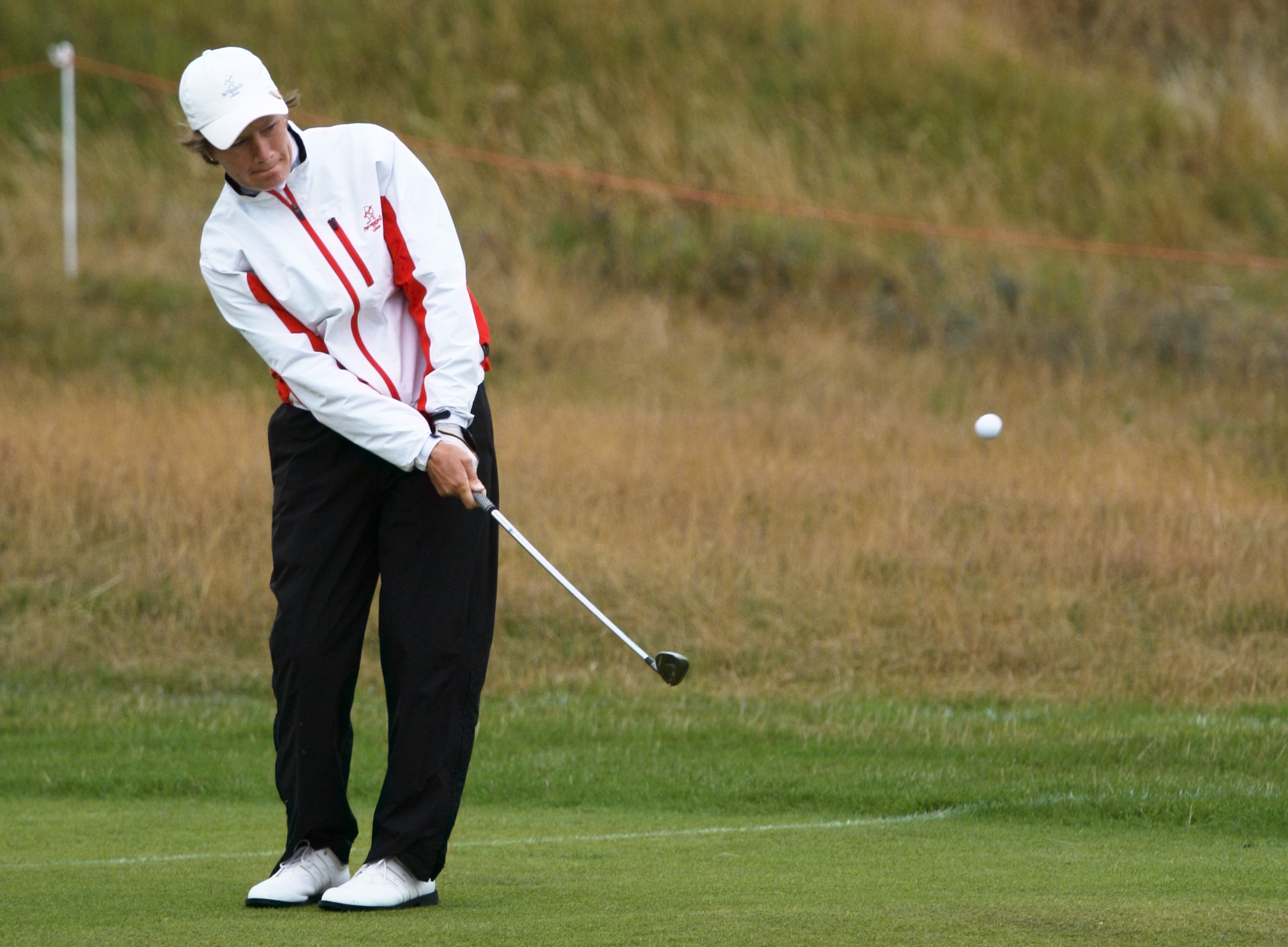 LYTHAM ST ANNES, UNITED KINGDOM - JULY 29: Catriona Matthew of Scotland pitches into the 4th green during third practice round before 2009 Ricoh Women's British Open held at Royal Lytham & St Annes on July 29, 2009 in Lytham St Annes, England. (Photo by Wojciech Migda)